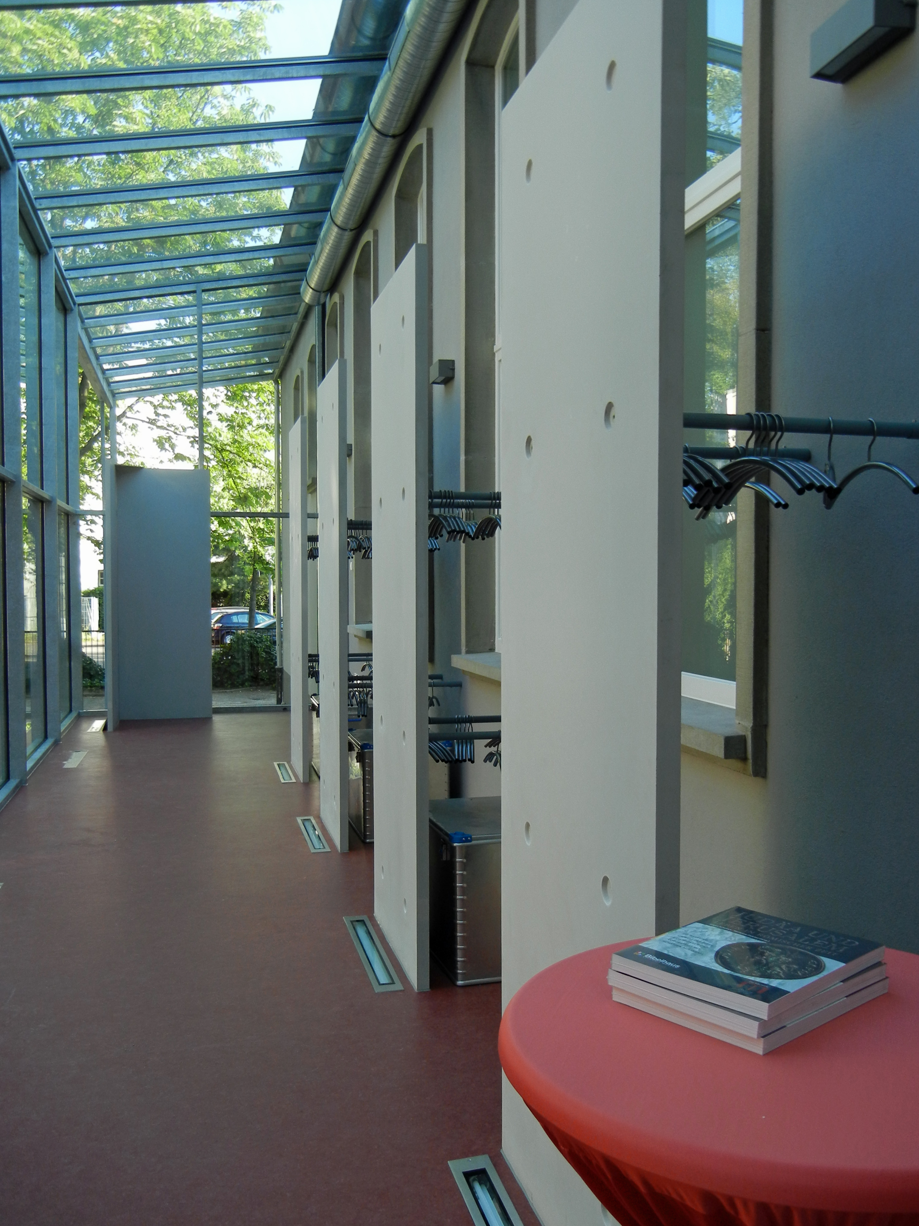 Wardrobe elements made of white UHPC in the museum bible house, Frankfurt (Main), Germany